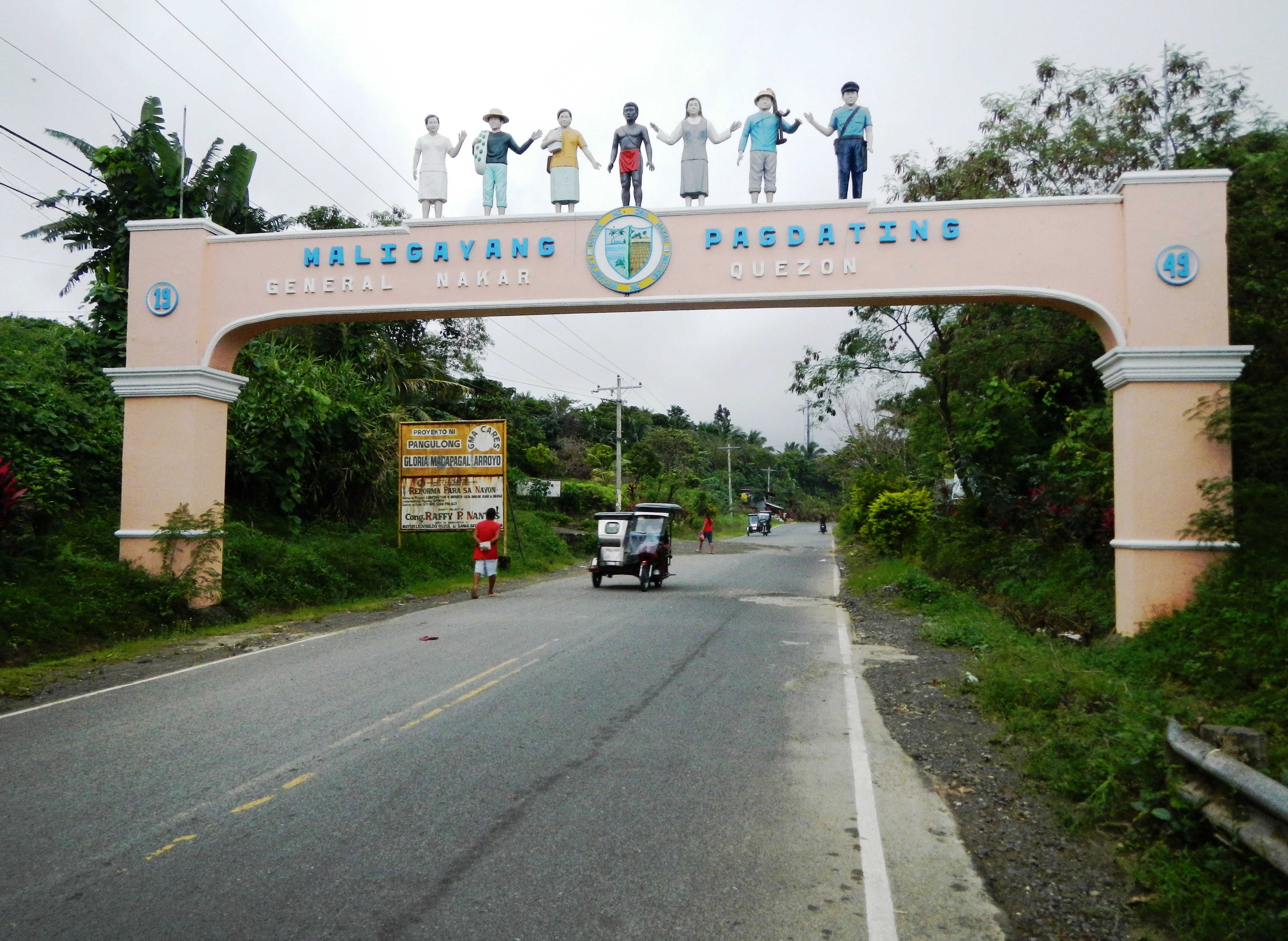 UploadWizard Panorama photos -- (General description, 3-dimension angle by angle photography of this town, church & landmarks) -- of Welcome Arch of General Nakar, Quezon[1] - gateway to the Town Hall, Church and Town Proper.